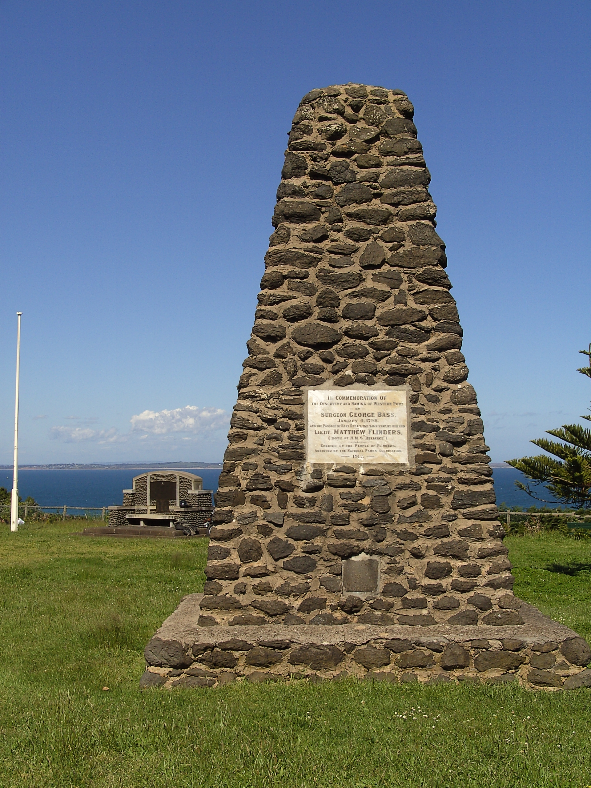 Memorial to George Bass and Matthew Flinders at Flinders, erected 1912. Plaque reads, "In Commemoration of the Discovery and Naming of Western Port by Surgeon George Bass January 4, 1798. And the passage of Bass Strait, the same year, by Bass and Lieut Matthew Flinders (both of H.M.S. "Reliance") Erected by the people of Flinders assisted by the National Parks Association 1912". Note: The local war memorial was later erected beside this memorial, and is seen to the left.